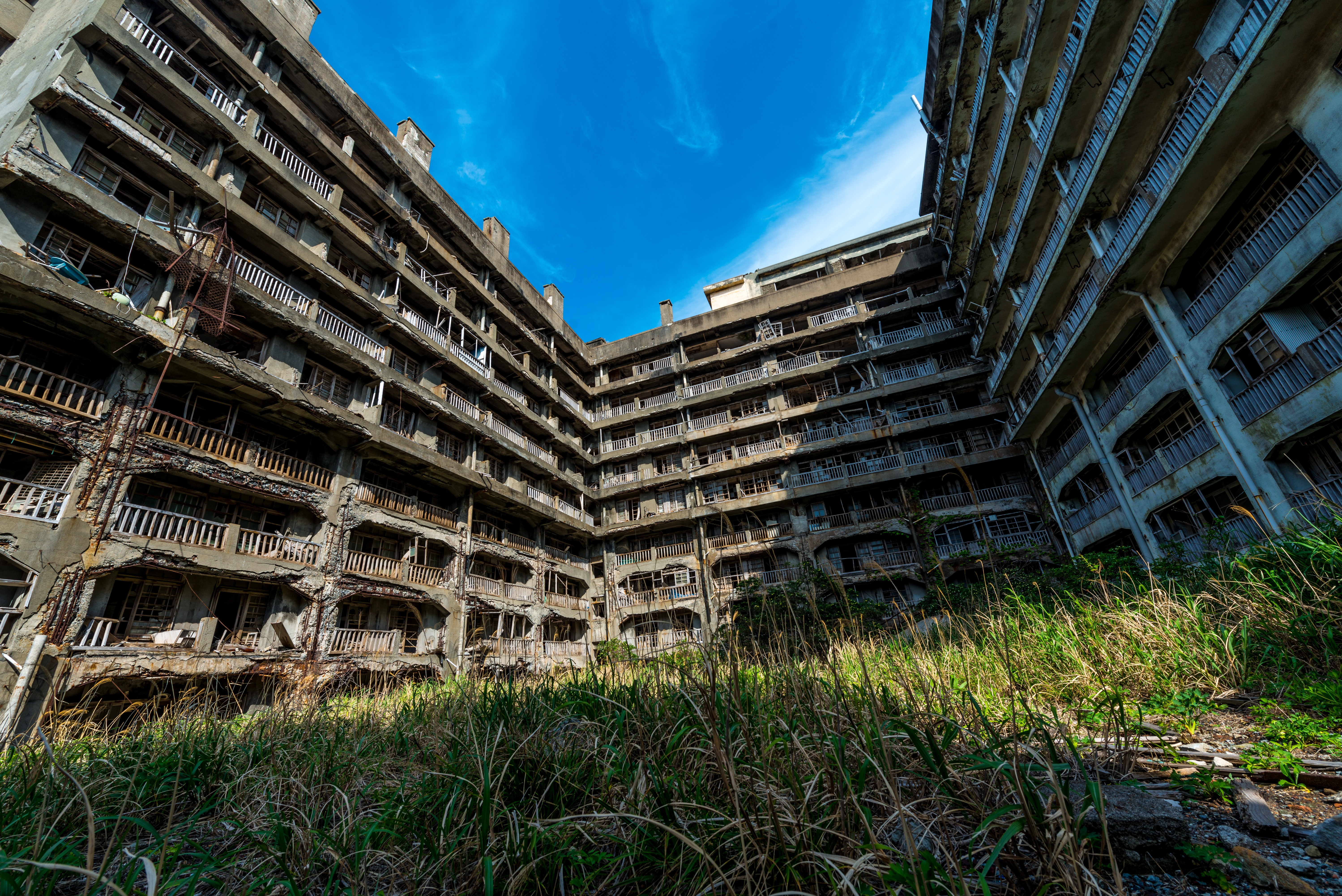 The Block 65 on Gunkanjima